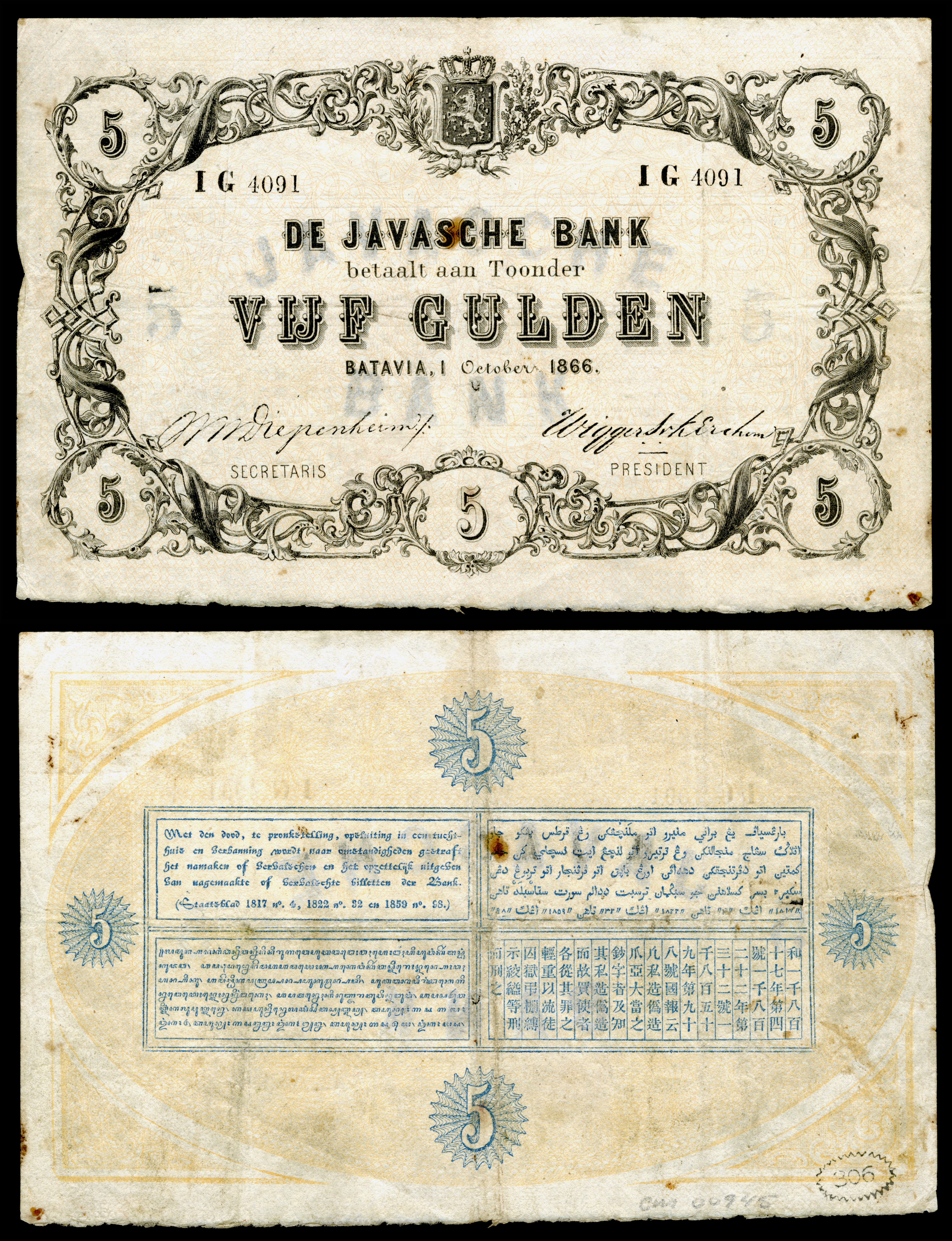 Netherlands Indies (Indonesia) De Javasche Bank - 5 Gulden (1866). Legal text on reverse in Dutch, Javanese, Chinese, and Jawi Malay.